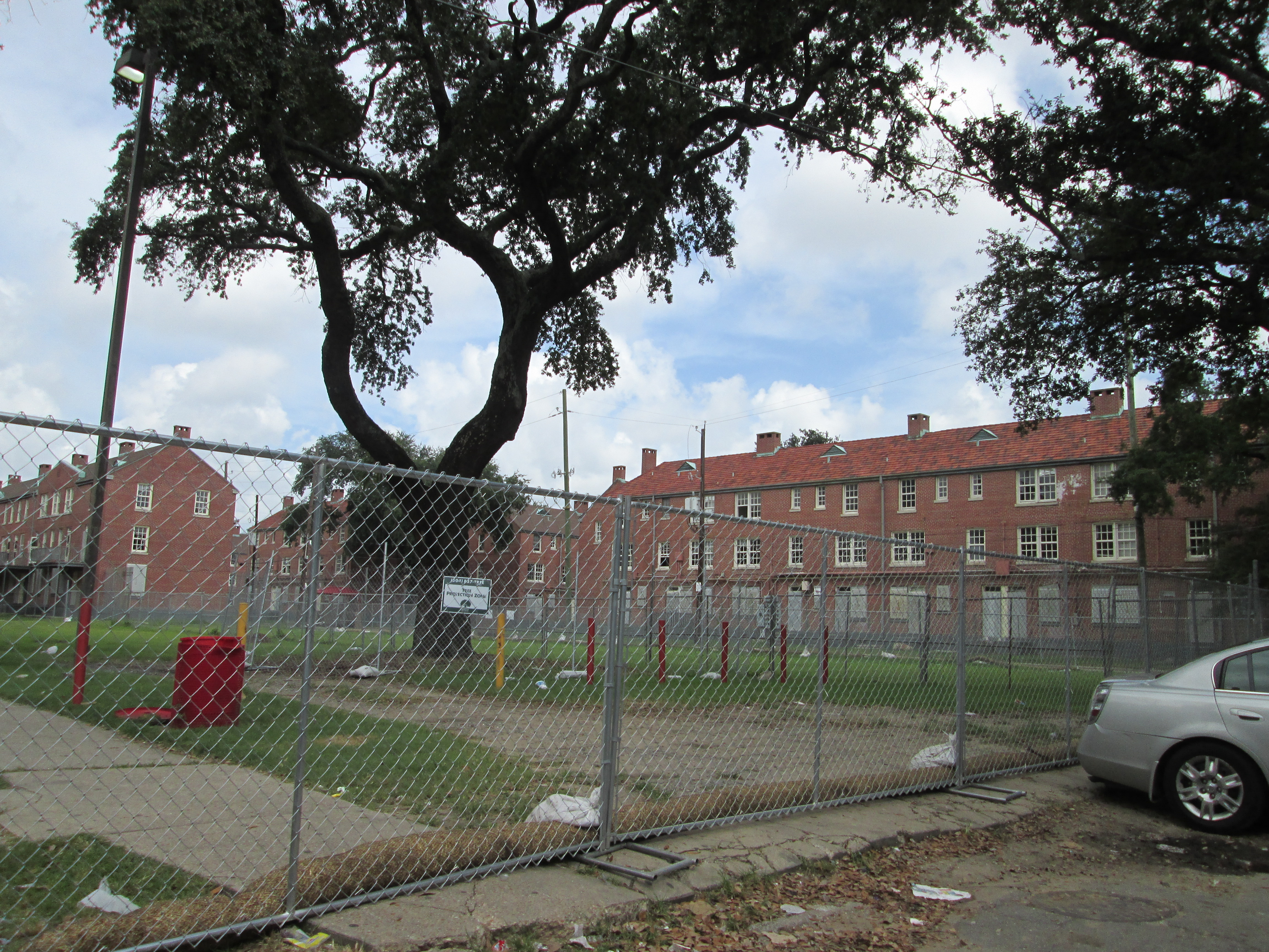 New Orleans. Iberville Projects. Parts of this housing project are being demolished.